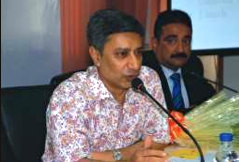 Image taken at the Governing Council Meeting of CAPSI (Central Association of Private Security Industry)